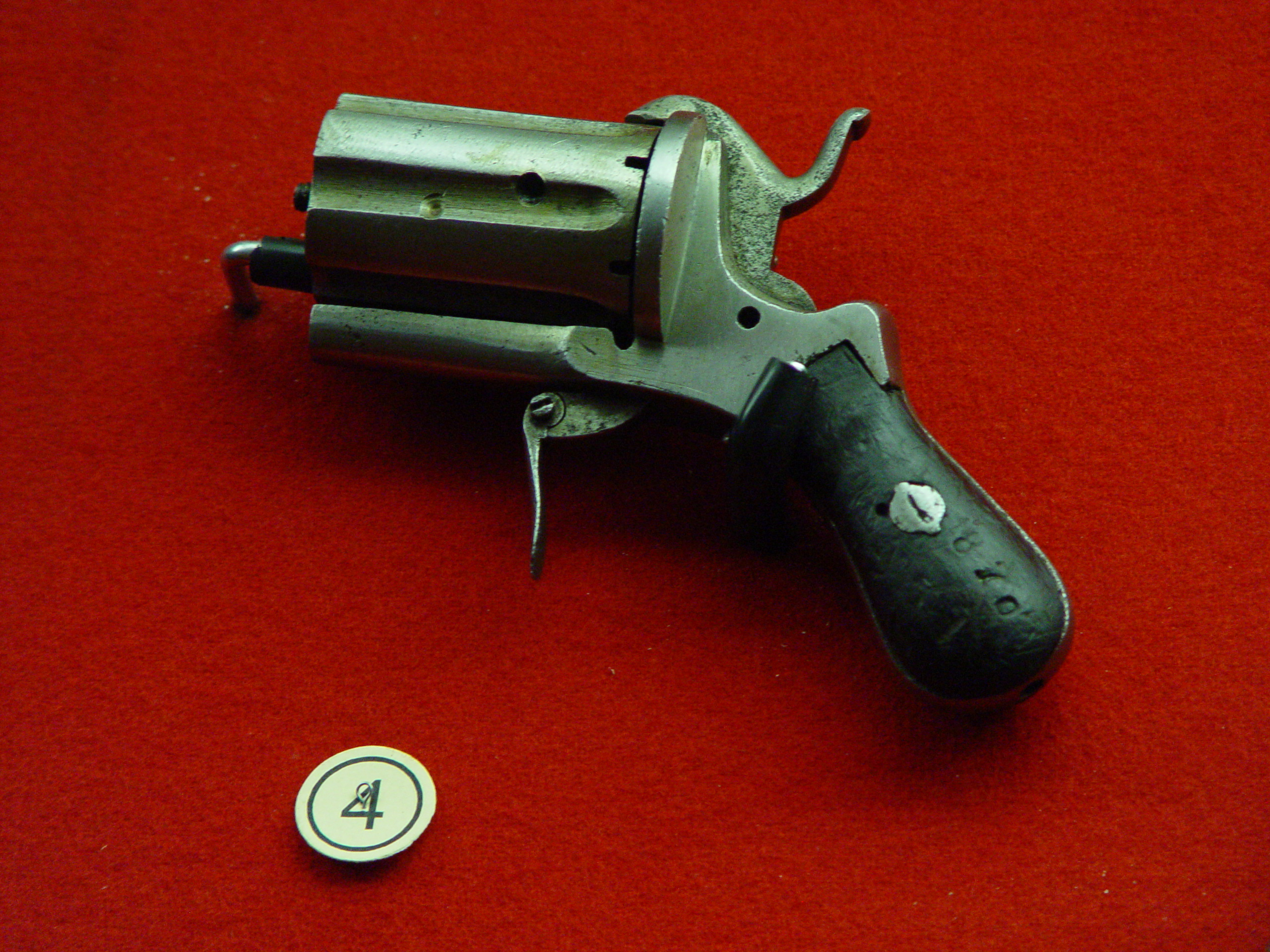 Pepperbox for 8-mm Lefaucheux cartridge in Museum of Weaponf of Tula, Russia